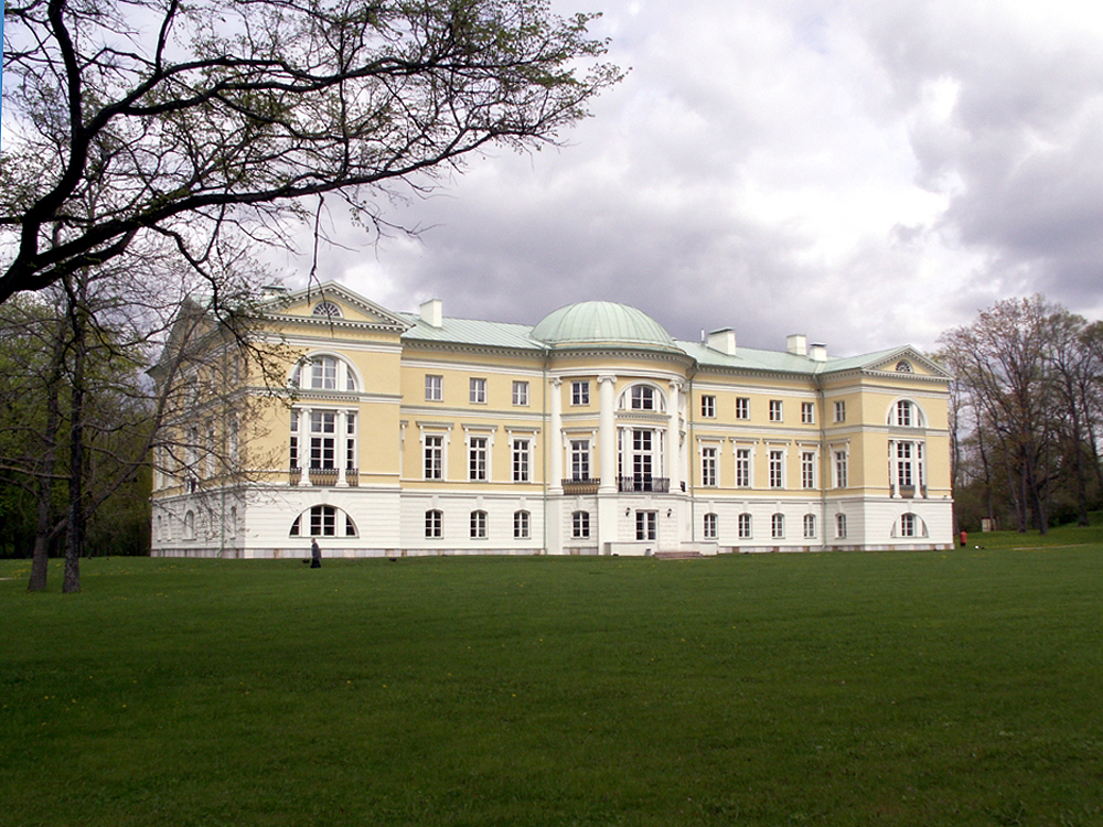 Mežotnės castle